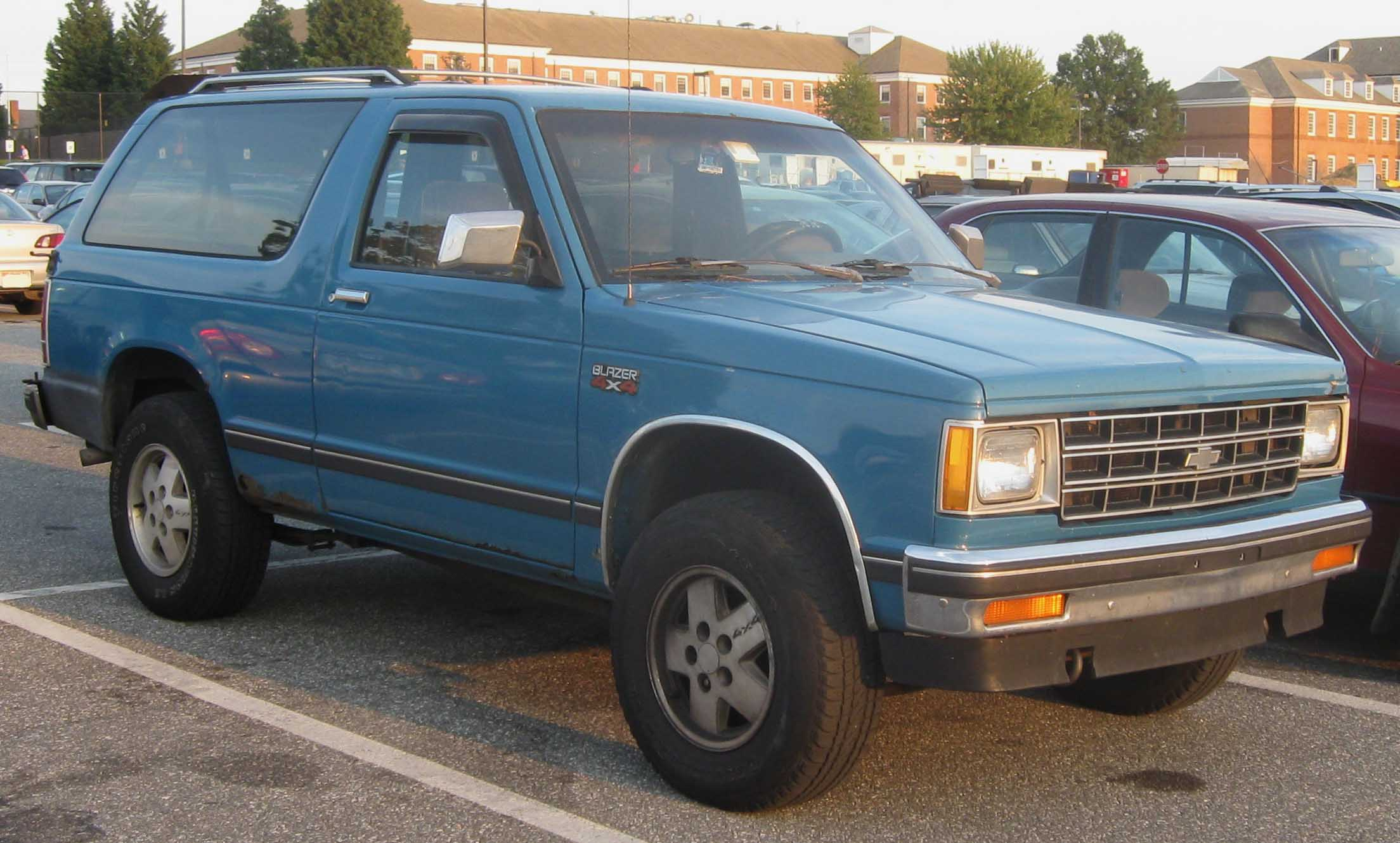 1983-1990 Chevrolet S-10 Blazer photographed in College Park, Maryland, USA.